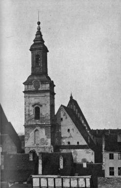 Church Nikolaikirche in Frankfurt (Oder), Germany. Photo taken before the rebuild in 1890